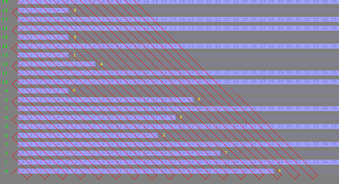 Shows an algorithm to enumerate the set of all Turing machines halting on a fixed input x: Simulate all Turing machines (enumerated in green on vertical axis) step by step (horizontal axis), using the shown diagonalization scheduling. If a machine terminates, print its number. This way, the number of each terminating machine is eventually printed. In the example, the algorithm prints 9, 13, 4, 15, 12, 18, 6, 2, 8, 0, ...